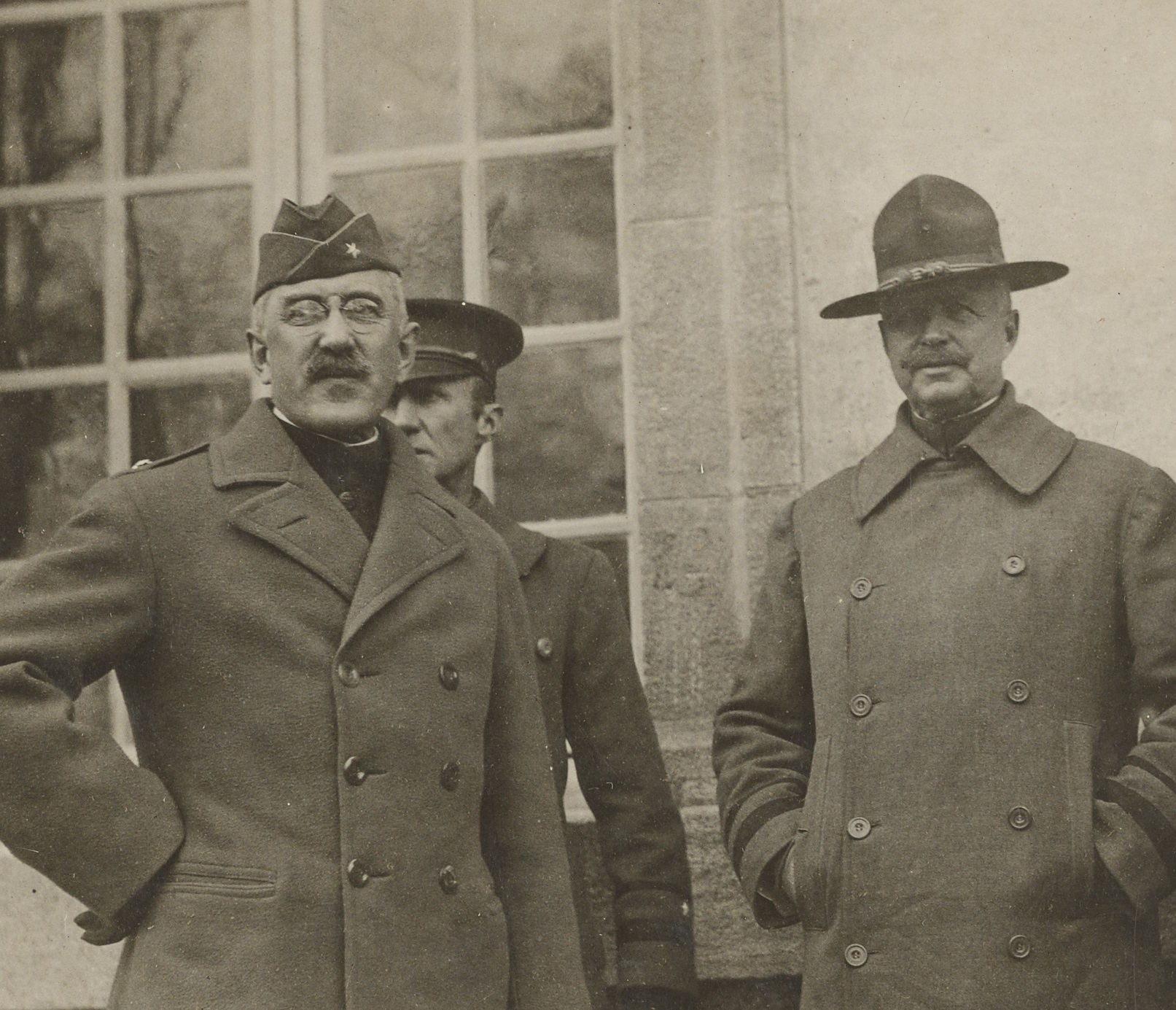 Brig. Gen. A. Andrews, Brig. Gen. Geo Mosely, Brig. Gen. Treat (...) at GHQ Chaumont, France